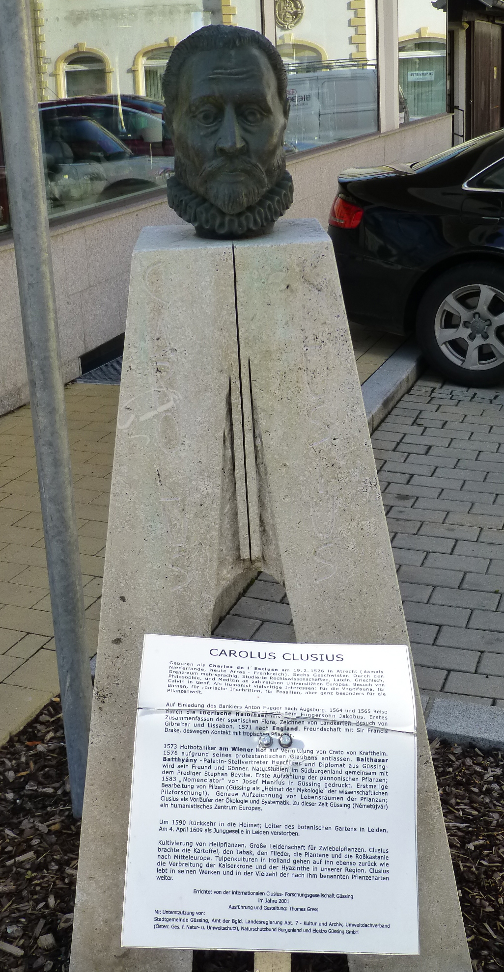 Homage to the European botanist Carolus Clusius, Güssing, Burgenland, Austria.